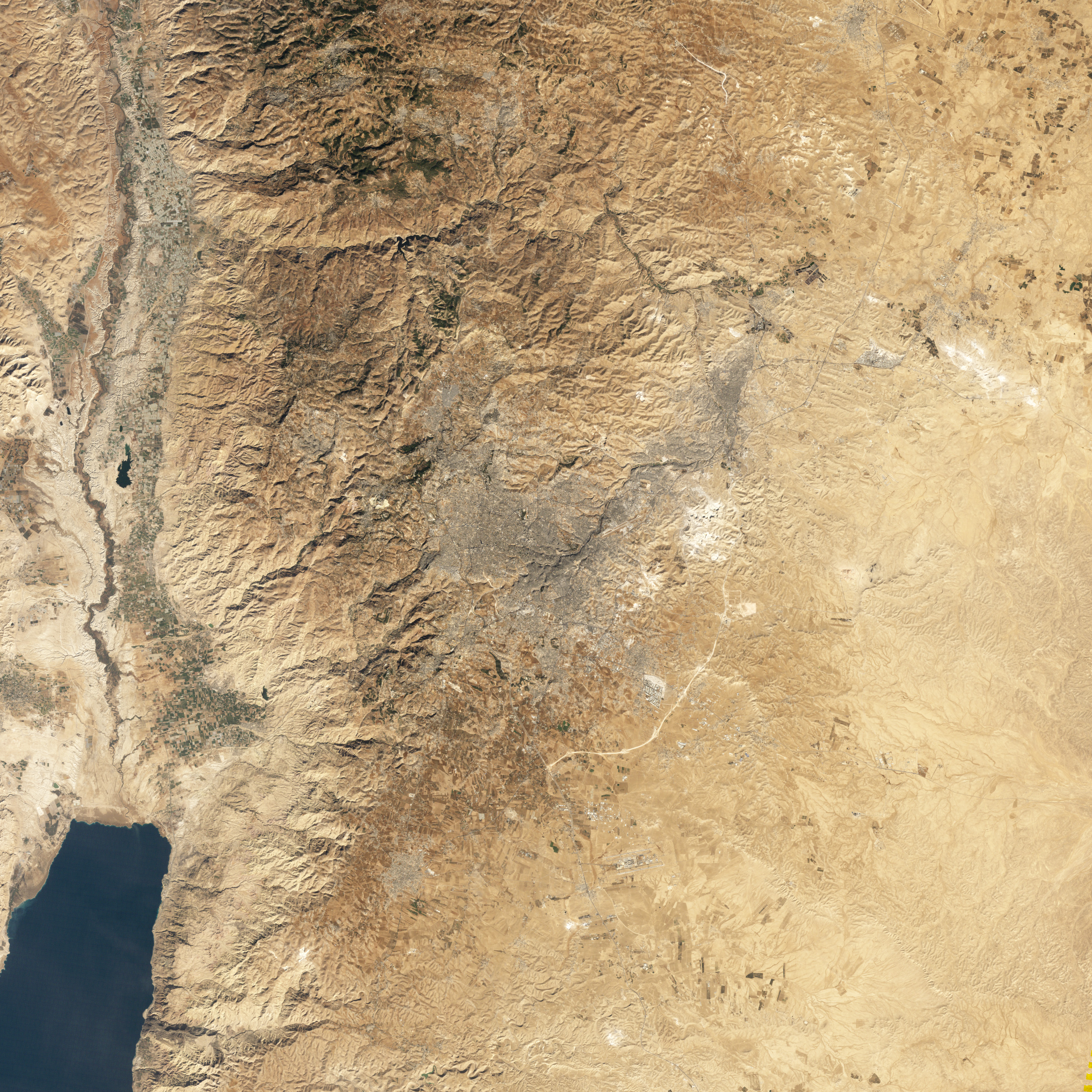 Natural-colour image of Amman, Jordan. The city forms a rough Vshape of gray. West of the city, the terrain is more rugged, with small valleys extending toward the Jordan River. Part of the Dead Sea appears south-west of Amman, and agricultural fields in the Jordan River Valley appear west of town. East of the city, the land is flatter.